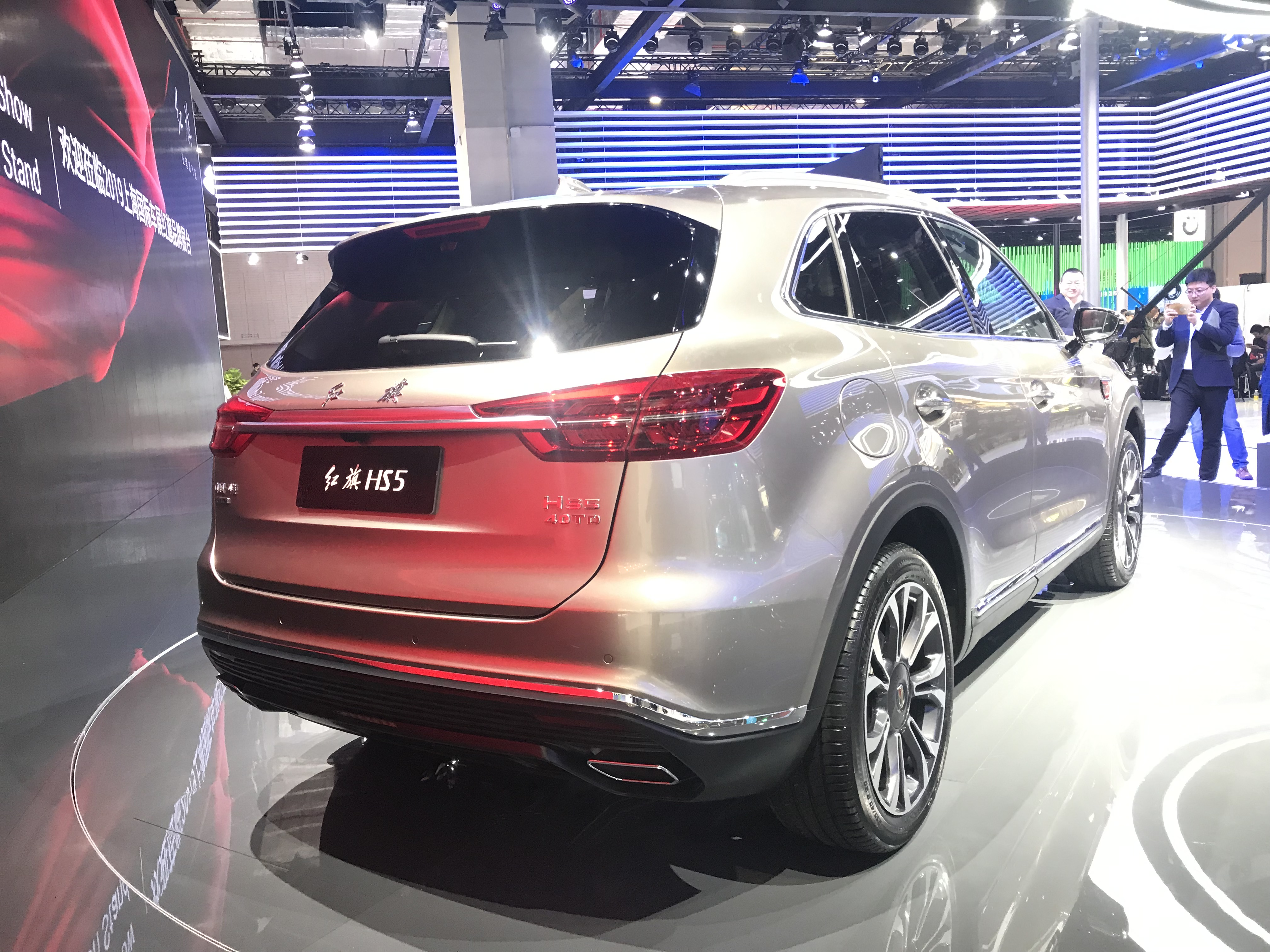 Hongqi HS5 rear